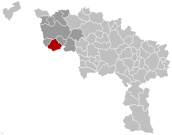 Map, municipality belgium Brunehaut